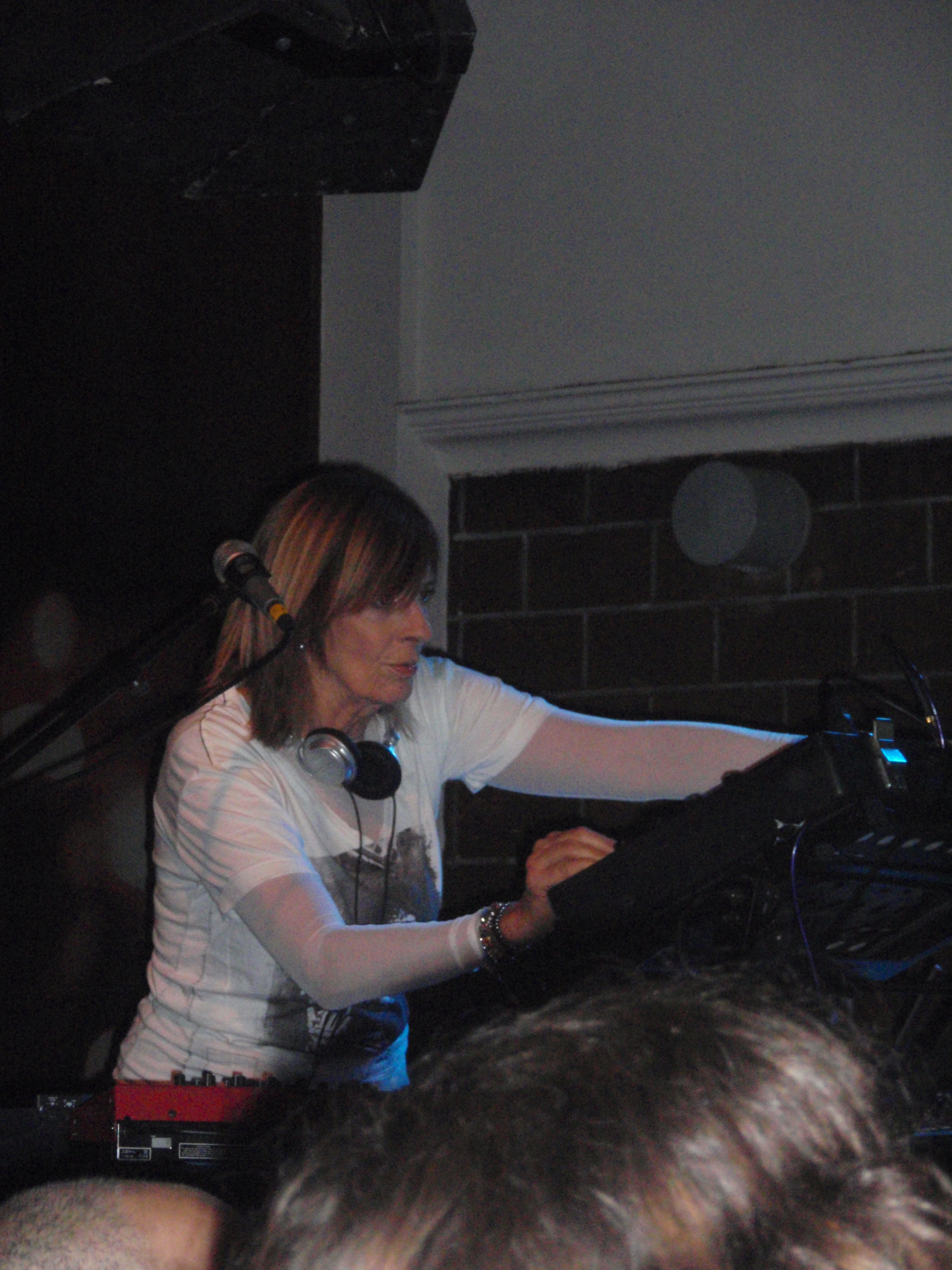 Gong, playing live in the Zappa club in Tel-Aviv. The 2032 tour.